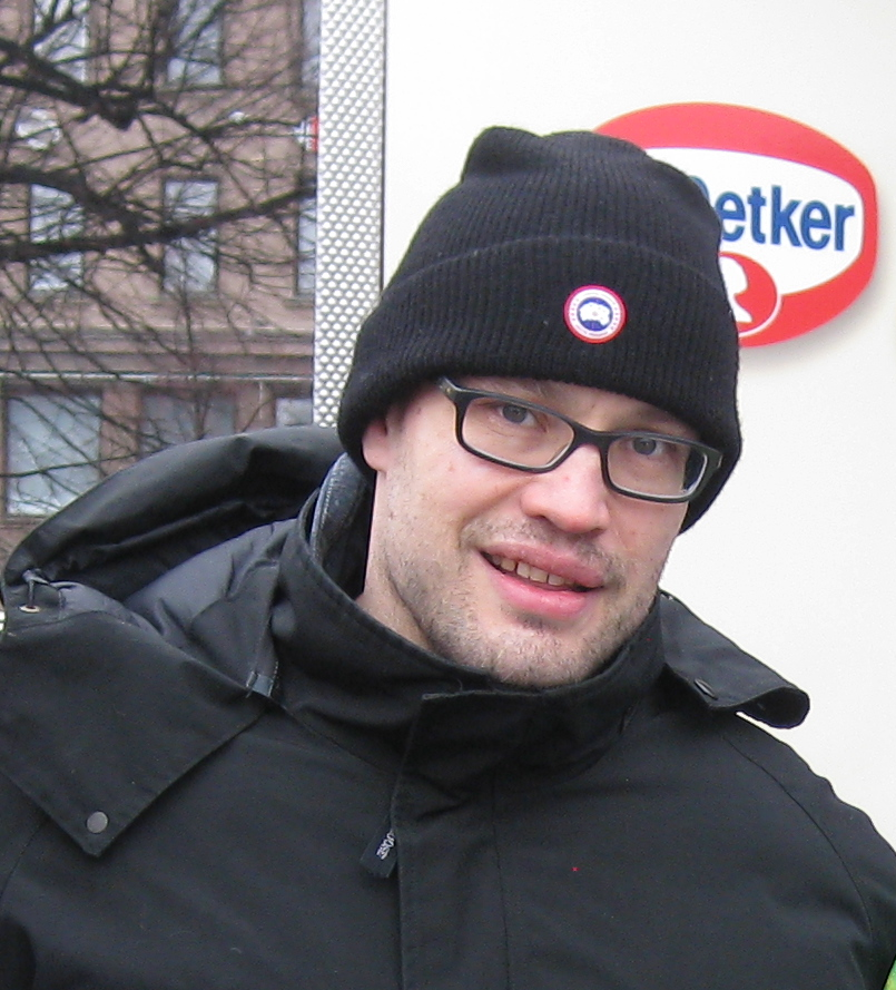 Ice hockey team Jokerit player Jarkko Ruutu